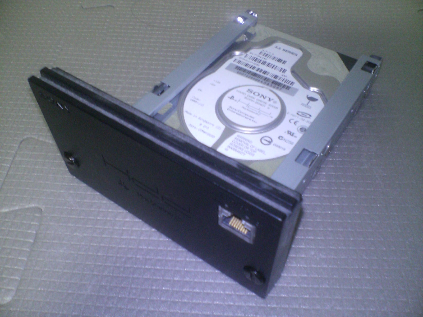 PlayStation BB Unit